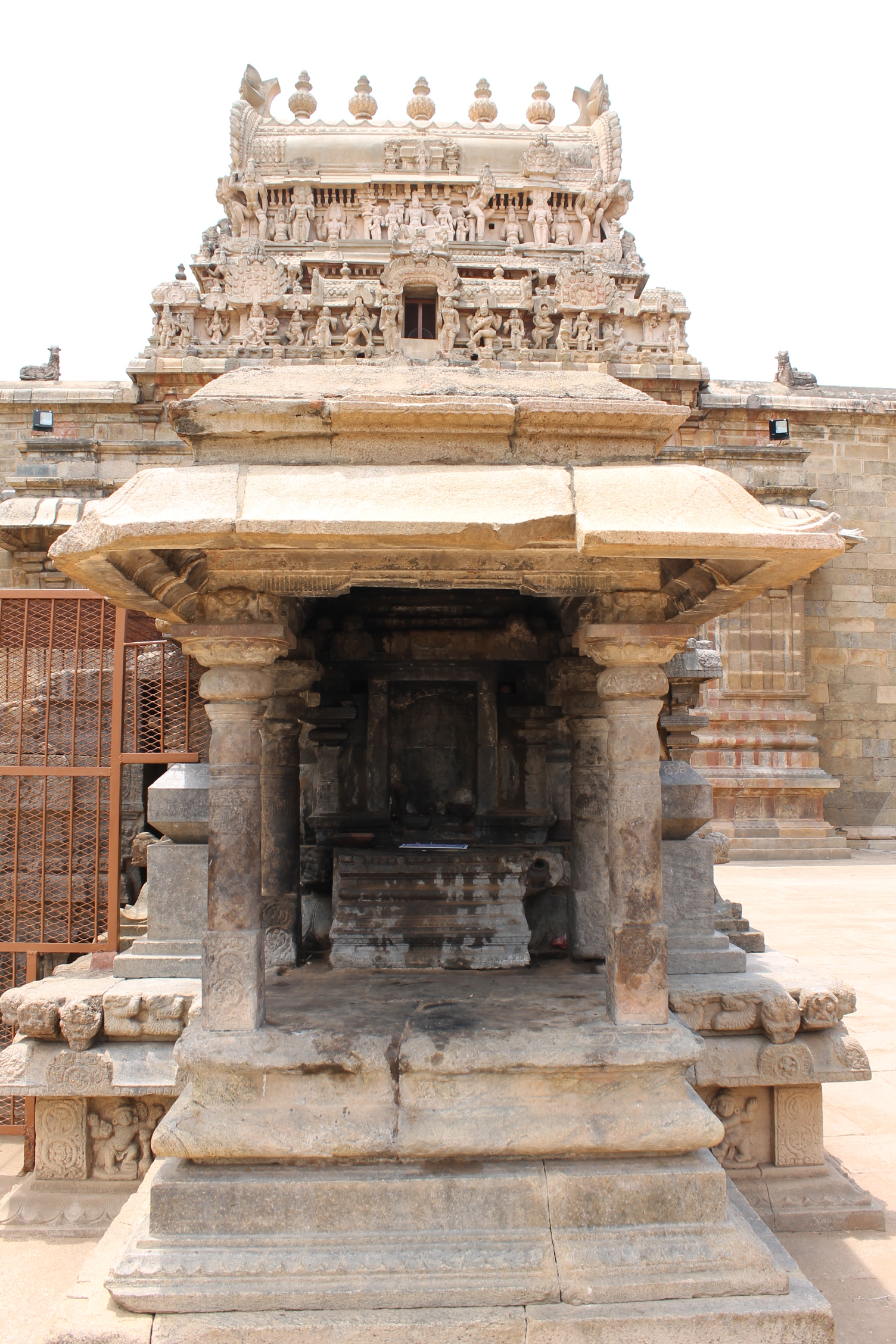 "Amazing Airavatesvara Temple entrance". Location: Chatram, Darasuram, near Kumbakonam, Thanjavur District, Tamil Nadu, India.